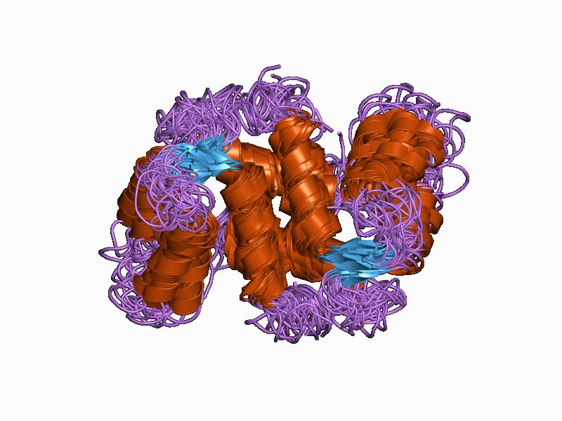 Cartoon representation of the molecular structure of protein registered with 1a03 code.